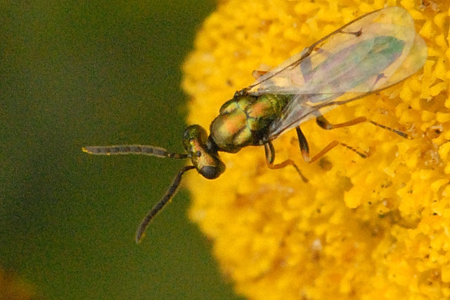 Torymus tanaceticola from Commanster, Belgian High Ardennes .